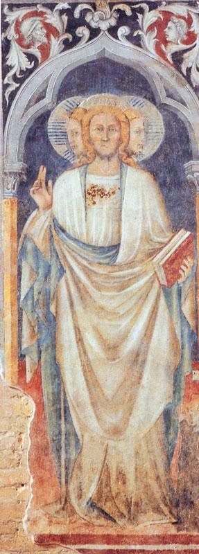 Depiction of Trinity with three heads (NOTE: not three faces on one head, which is different).